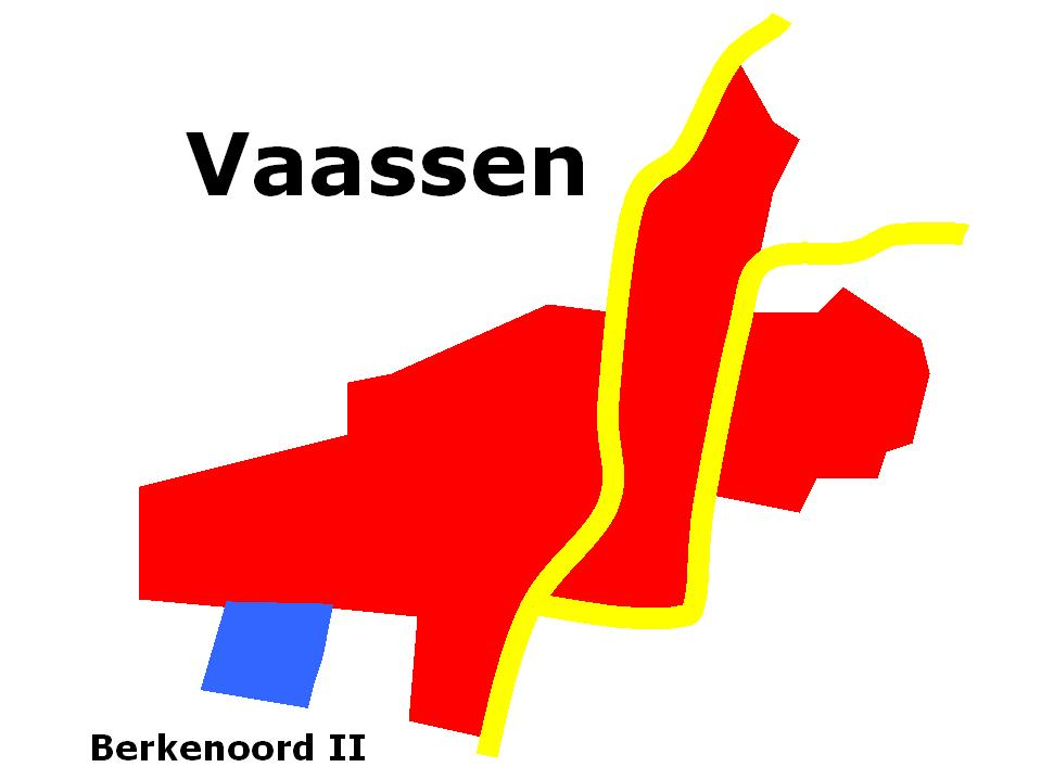 Location map of Berkenoord II in Vaassen.